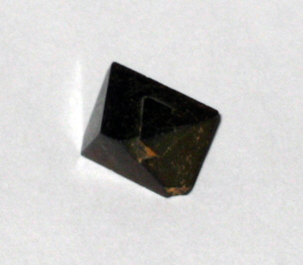 Martite (hematite Pseudomorph)